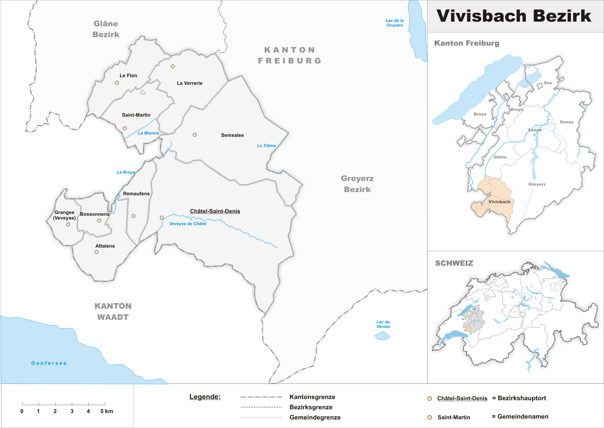 Municipalities in the district of Vivisbach